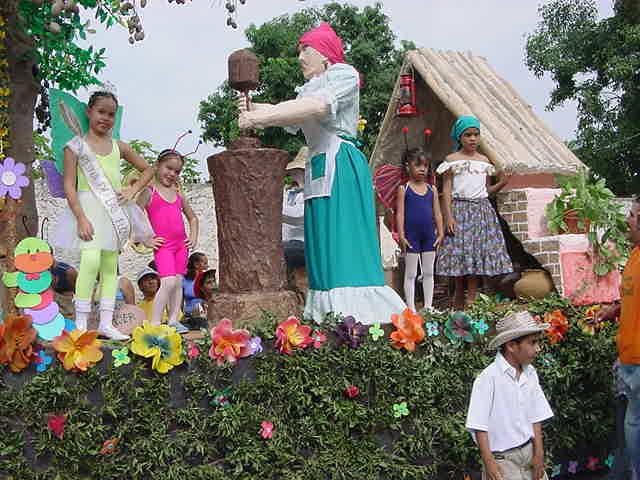 Festivities of the Day of the Flowers, Yagua, Venezuela